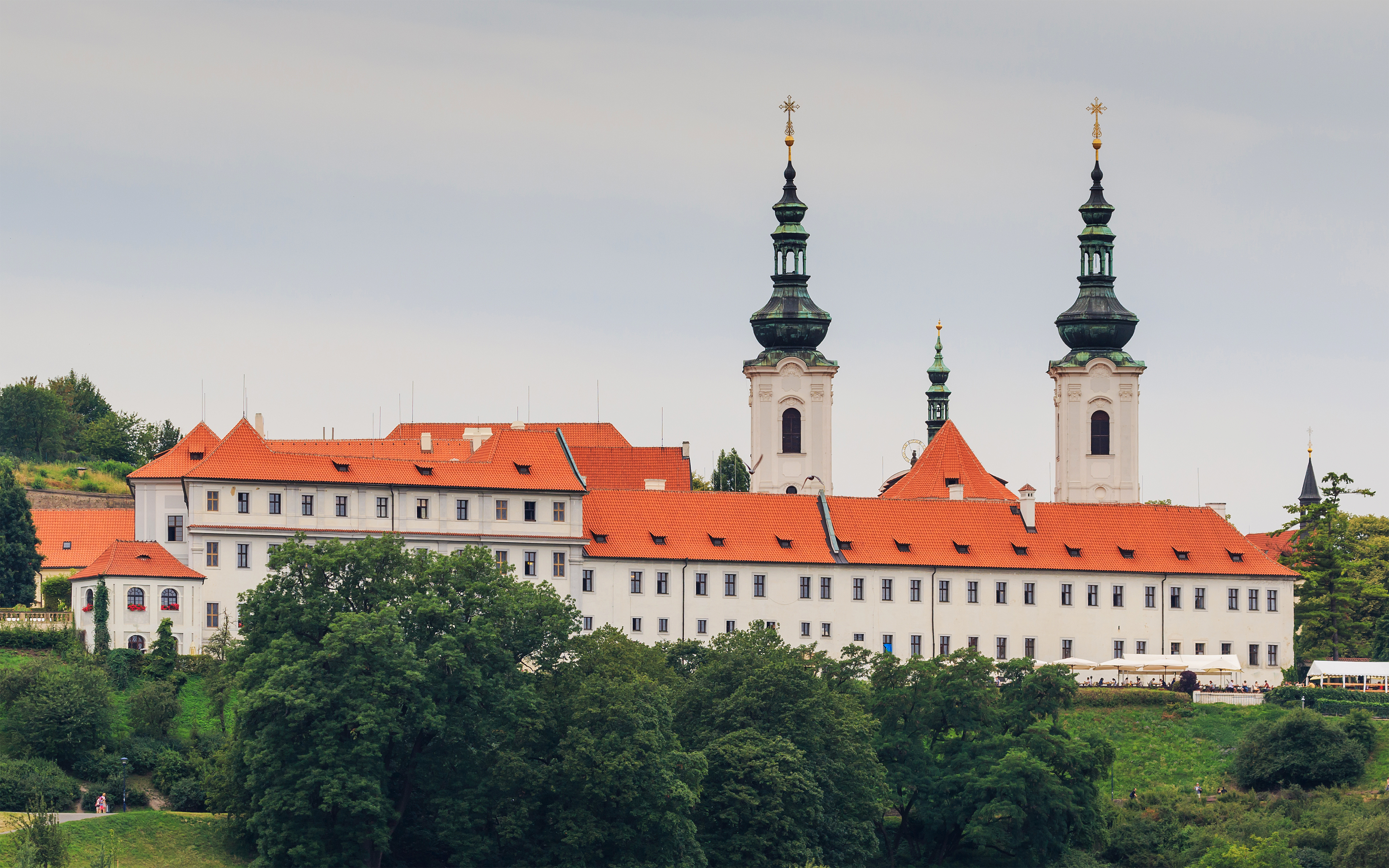 View from St.Nicholas Church in Lesser Town in Prague (Czech Republic) – Strahov Monastery